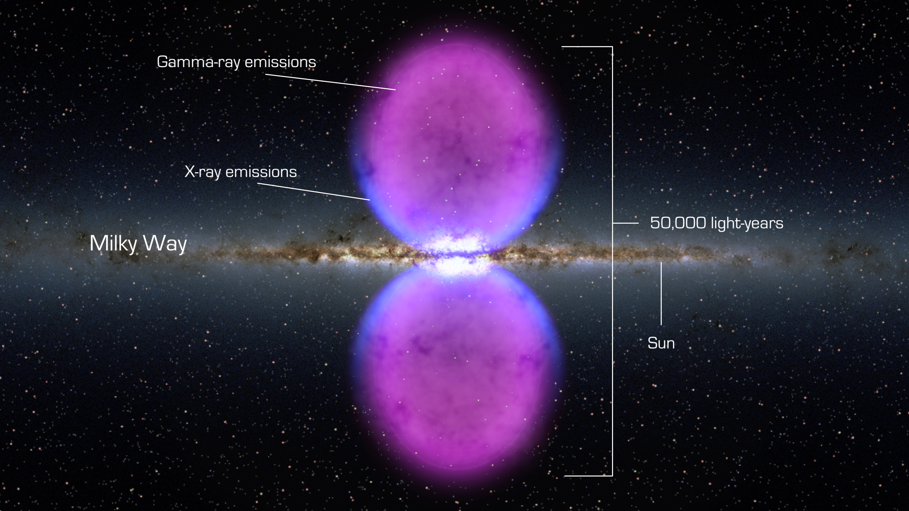 Gamma-Ray bubble at the center of the Milky Way